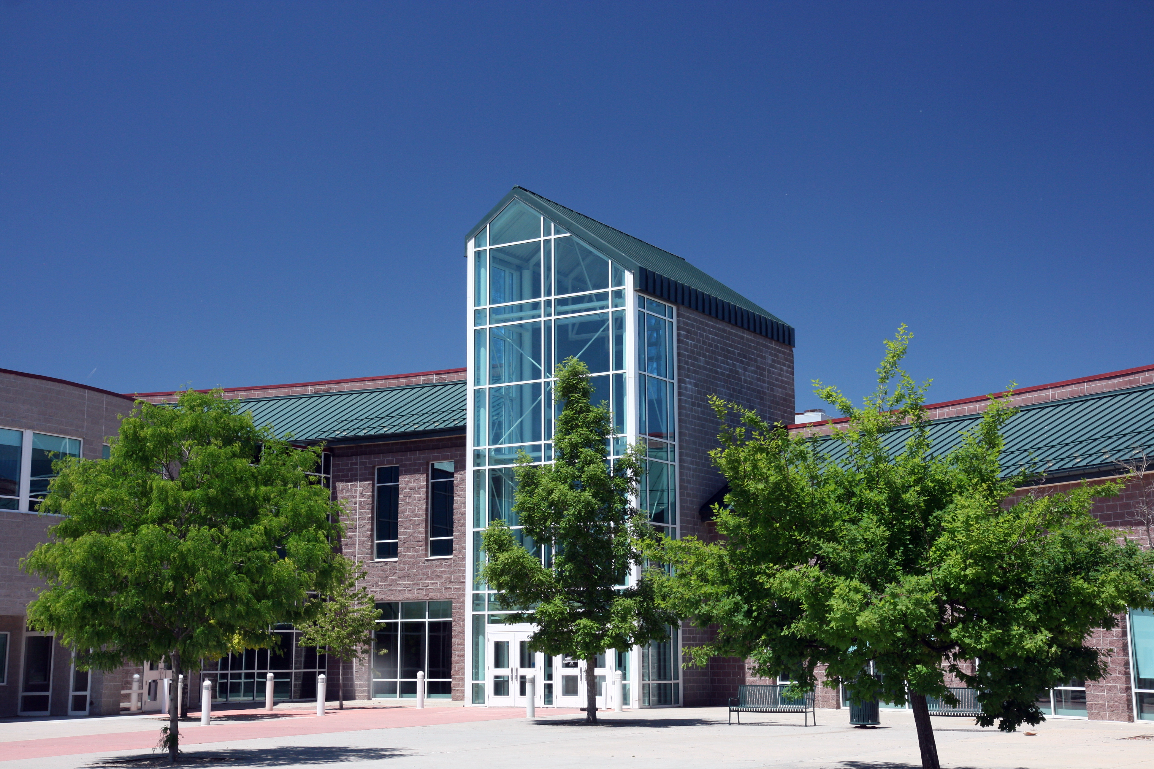 Photo of Silver Creek High School at Longmont, Colorado